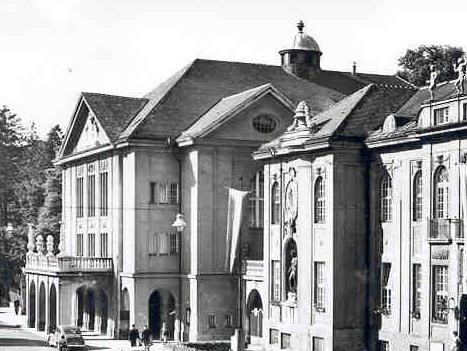 postcard of Mozarteum, salzburg (Austria)